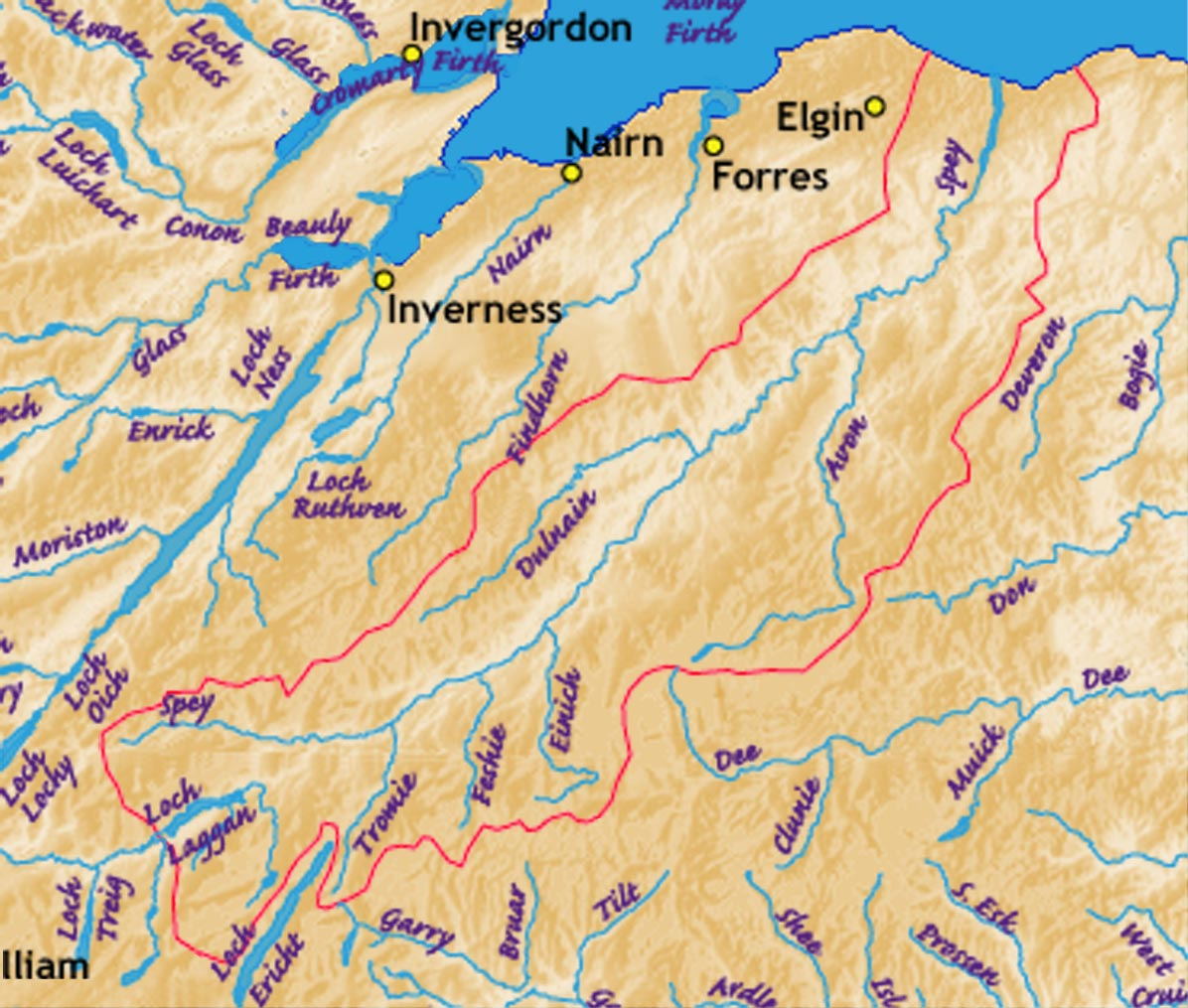 Tributaries of the River Spey catchment